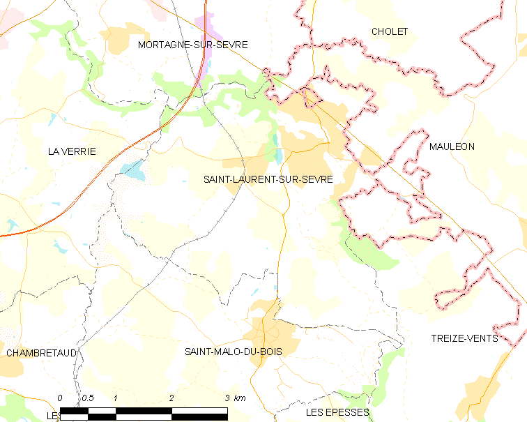 Map of French municipality Saint-Laurent-sur-Sèvre